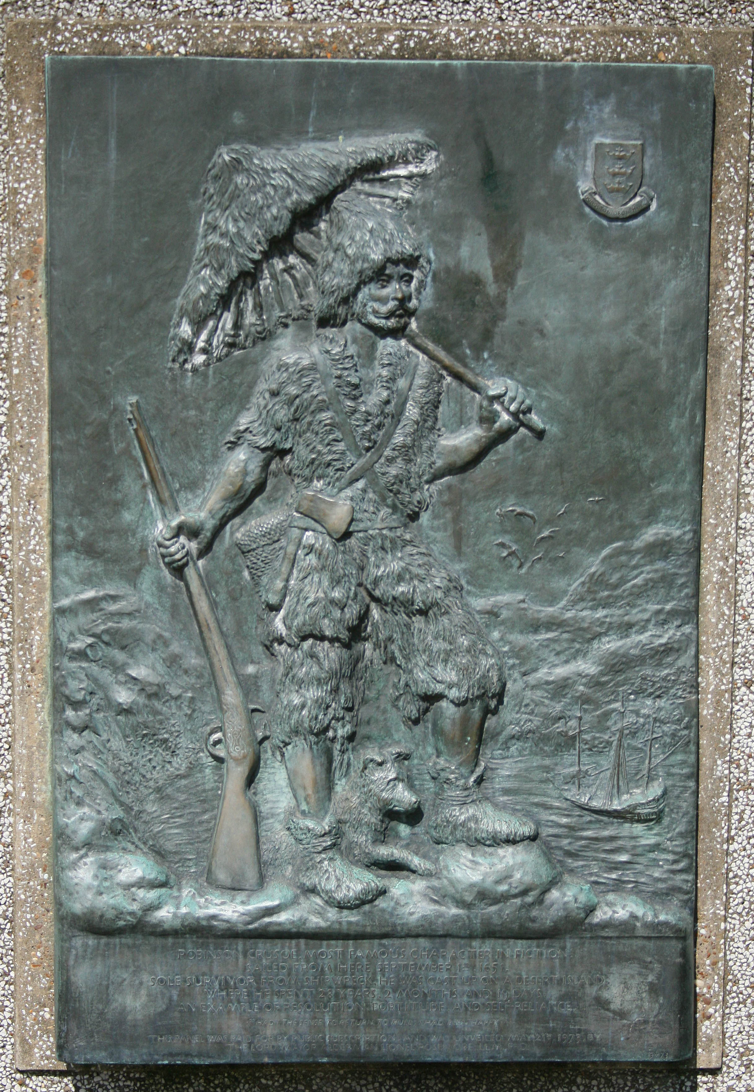 Photo's of Hull Robinson Crusoe monument, in what is now Queen's Gardens, Hull but what would then have been Queens Dock